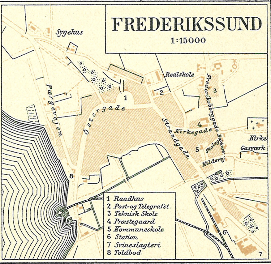 Map of Frederikssund in Frederiksborg Counties in Denmark